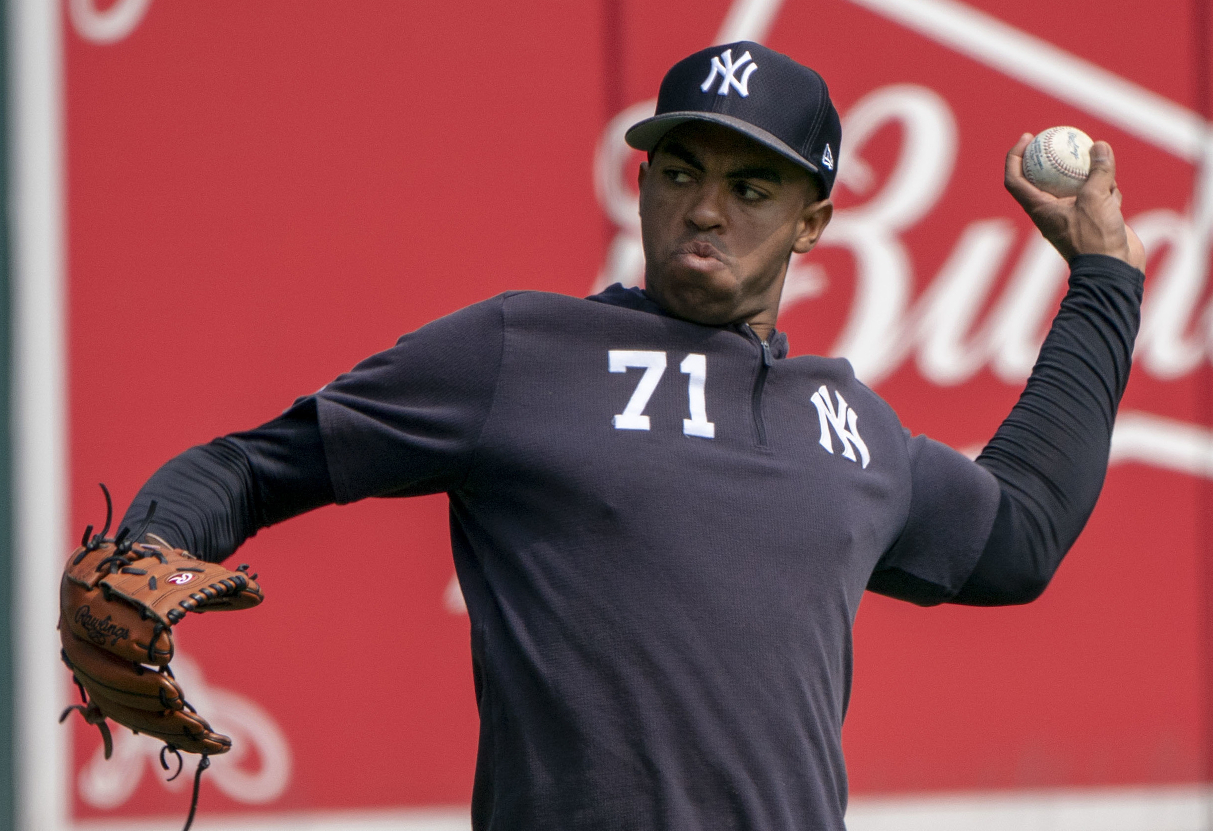 Stephen Tarpley of the New York Yankees warms up before a 2019 game against the Baltimore Orioles at Camden Yards in Baltimore.